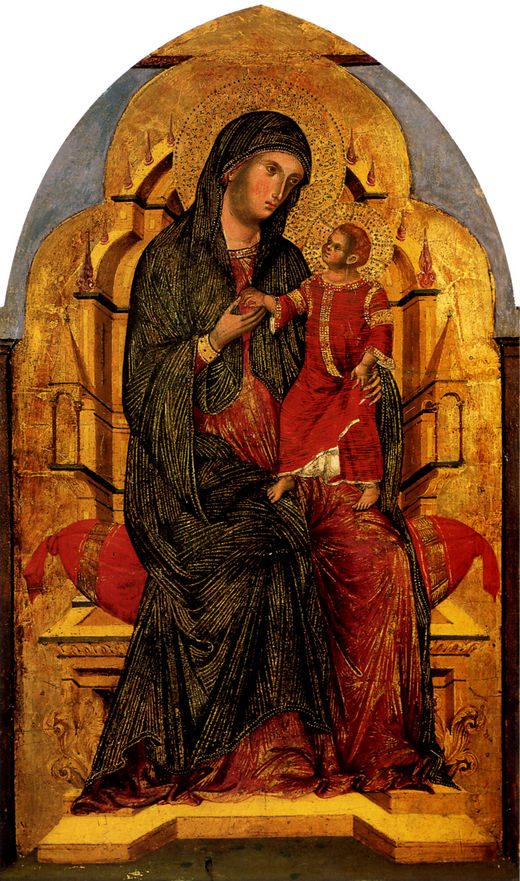 Madona and Child